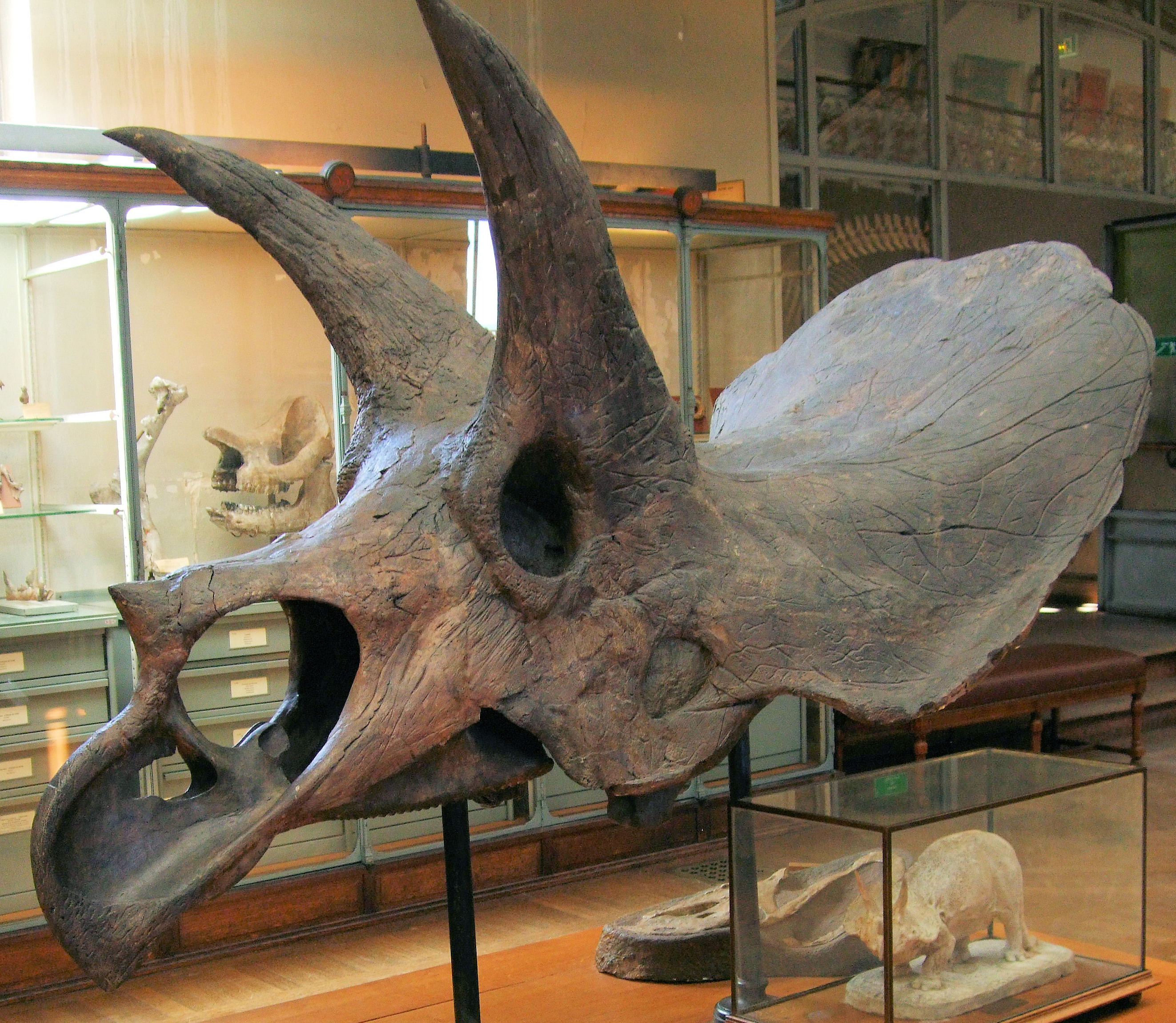 Skull of Triceratops horridus (specimen MNHN 1912.20, originally attributed to T. calicornis before synonymisation) on exhibition at the galerie de Paléontologie et d'Anatomie comparée, which is the hall of paleontology of the French National Museum of Natural History, in Paris. Othniel Charles Marsh named Triceratops calicornis in 1898 but in 1992 and 1996 it was synonymised with T. horridus (see "Species resolution in Triceratops: cladistic and morphometric approaches", by Catherine A. Forster, published by "Taylor and Francis" (1992), and in Journal of Vertebrate Paleontology (1996). This specific skull was collected in 1911 after some correspondence was exchanged between the French paleontologist Marcellin Boule and the American fossil hunter Charles Hazelius Sternberg. In the late 1900s, Boule was trying to enrich with a Triceratops the paleontology collections of the French National Museum of Natural History in Paris, and ordered a specimen to Sternberg. After that, in 1911 while hunting fossils in Wyoming, Sternberg found a Triceratops skull which could be of some interest to Boule, who purchased the piece. The skull, partially damaged after being kept in the rock for millions of years, was reassembled with important amounts of plaster by Charles Mortram Sternberg, who was Charles Hazelius' son. When delivered to the Paris Museum, in October 1912, the specimen was given the inventory number MNHN 1912.20 and put on display in the galerie de Paléontologie.